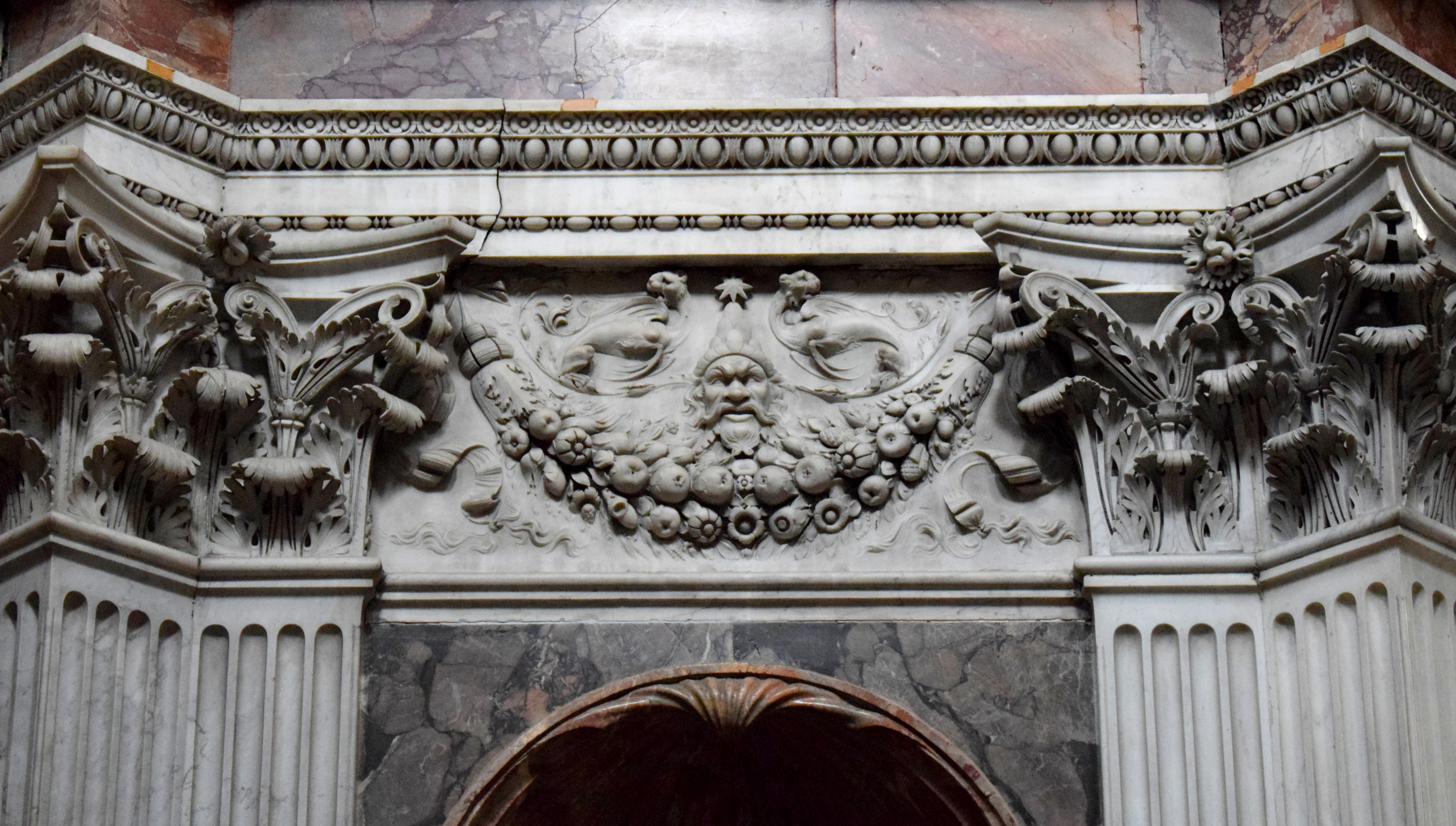 The frieze of the Chigi Chapel, Santa Maria del Popolo. Panel to the right of the entrance.